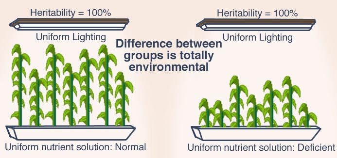 I made this myself in photoshop using as a source for the diagram, but not the image itself.